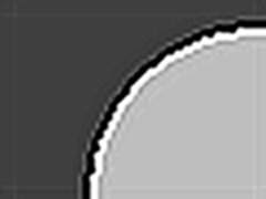 An illustration of ringing artifacts, showing a quarter-circle of light gray on dark gray with 3 levels of artifacts on each side (overshoot, ring 1, ring 2). Produced by taking the original image (a single sharp transition, without artifacts), then upscaling by 2× via a Lanczos-3 filter, sharpening via unsharp masking (radius 1, amount 10 (1000%), then upscaling again by 2× with Lanczos-2.